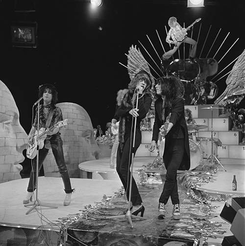 New York Dolls in AVRO's TopPop (Dutch television show) in 1973